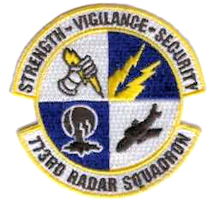 Emblem of the USAF 773d Radar Squadron